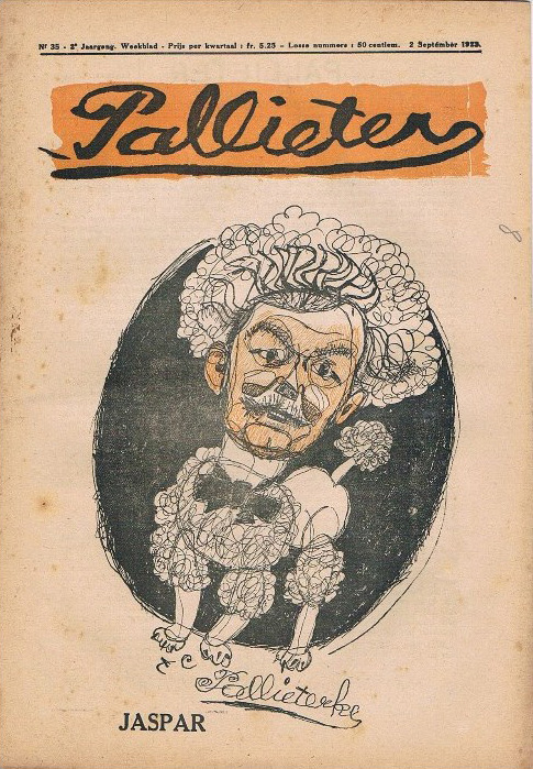 Henri Jaspar. Front page of the Flemish magazine Pallieter (1922-1928). All front pages were designed and illustrated by Jos De Swerts (1890-1939). (This looks one like designed in a different style)